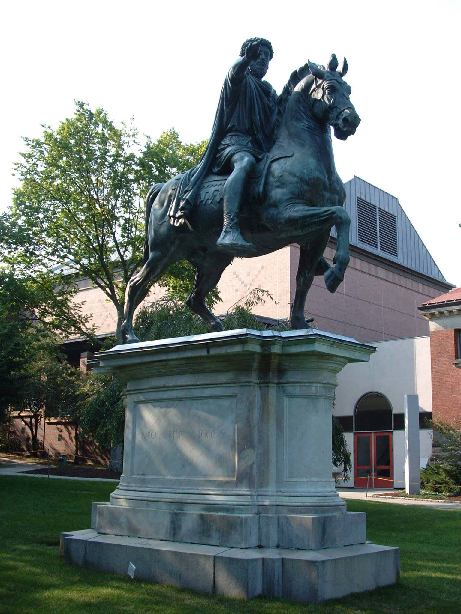 Brown University - Marcus Aurelius Statue